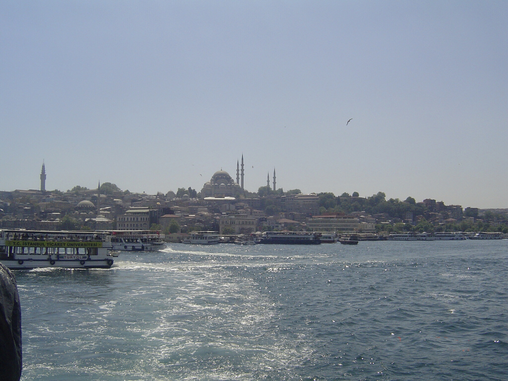 View of Istanbul Old City from Bosphorus ( from the boat)